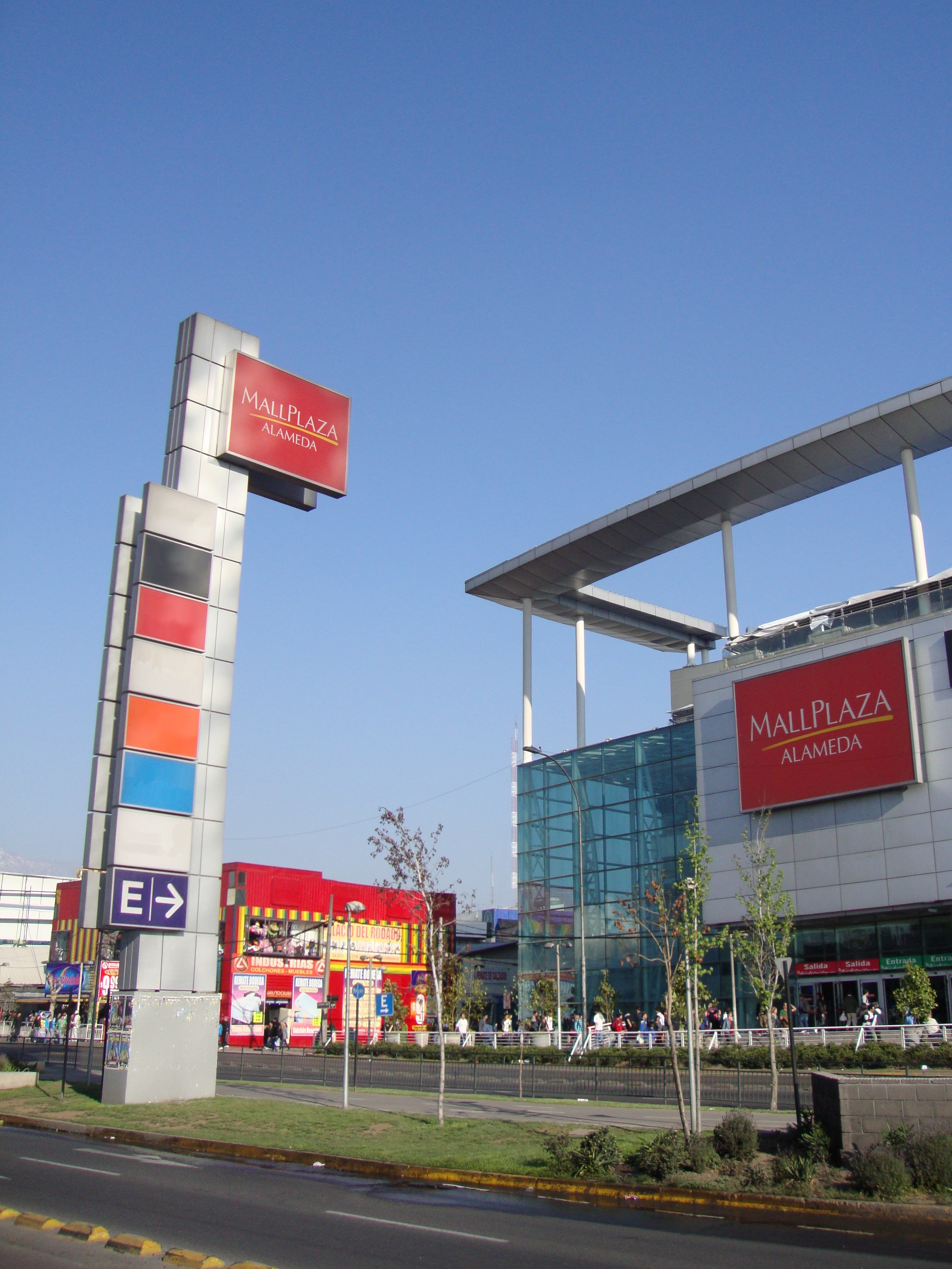 Mall Plaza Alameda's image